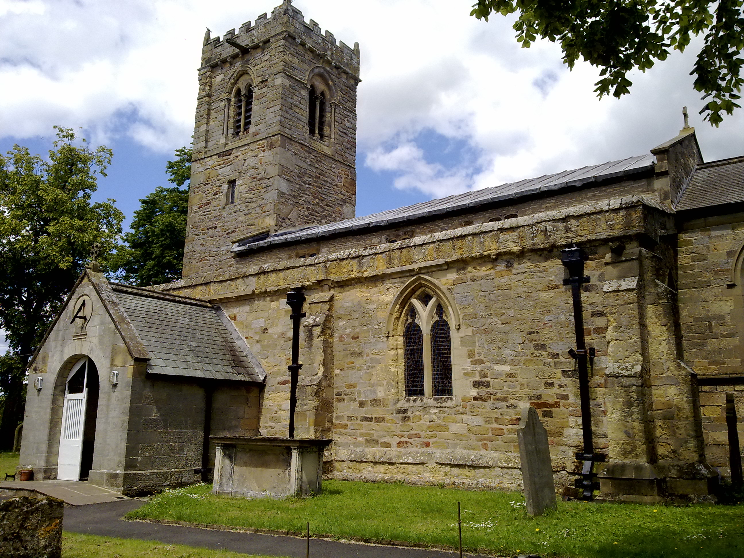 St Andrews Church, Middleton